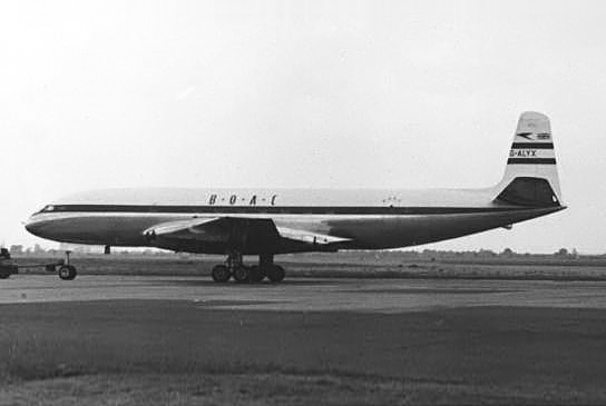 DH.106 Comet 1 G-ALYX of BOAC at Heathrow Airport